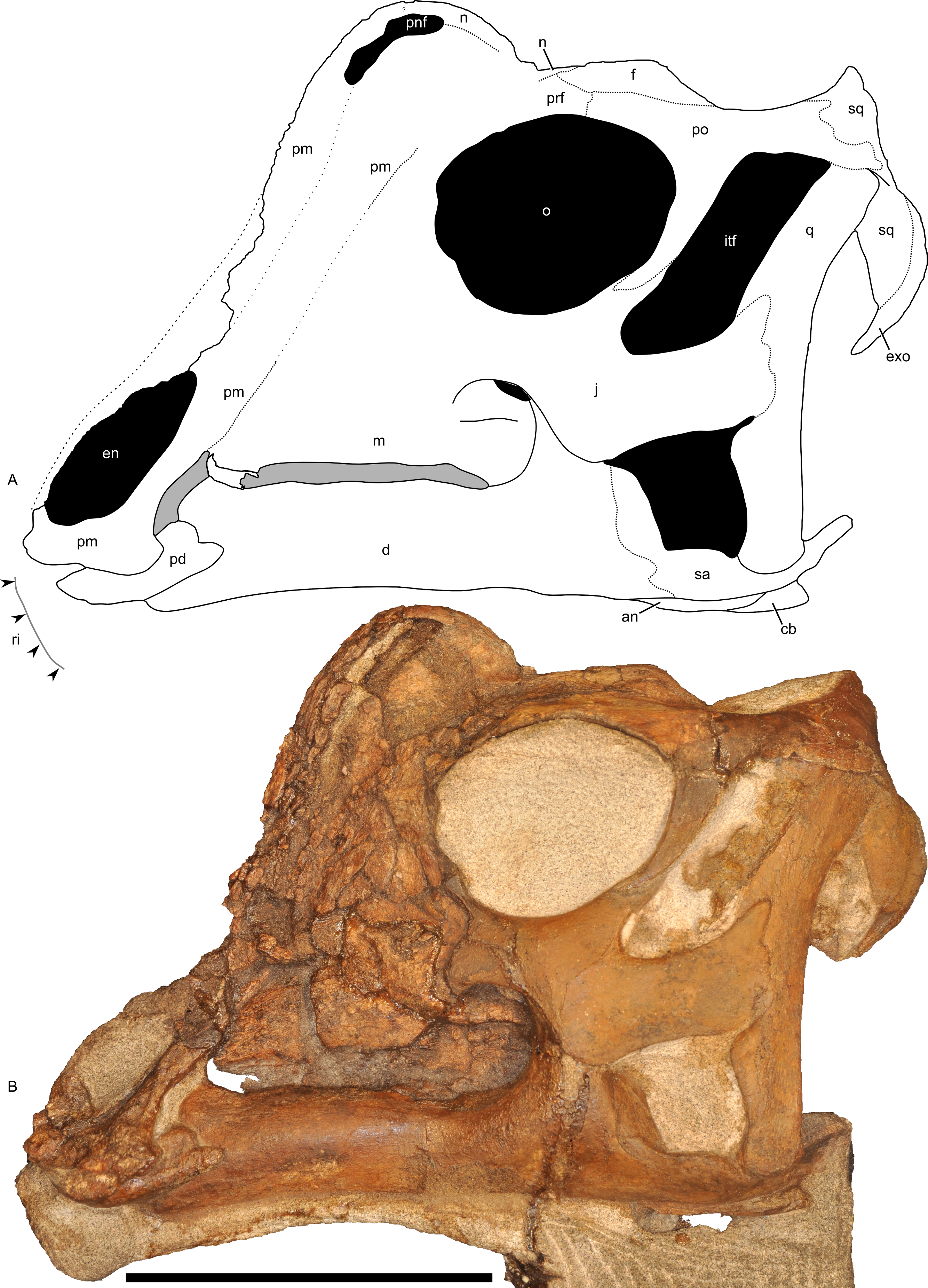 Left half of the skull of Parasaurolophus sp., RAM 14000, in lateral view. (A) interpretive drawing; (B) photograph. Abbreviations: an, angular; cb, first ceratobranchial; d, dentary; en, external naris; exo, exoccipital-opisthotic; f, frontal; itf, infratemporal fenestra; j, jugal; m, maxilla; n, nasal; o, orbit; pd, predentary; pm, premaxilla; pnf, premaxilla-nasal fontanelle; po, postorbital; prf, prefrontal; q, quadrate; ri, extent of impressions of upper rhamphotheca; sa, surangular; sq, squamosal. Scale bar equals 10 cm.